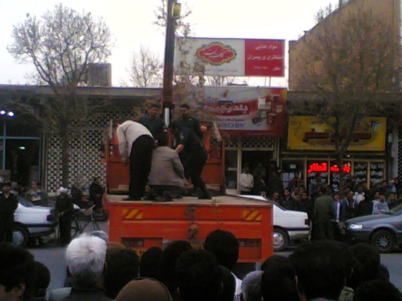 Public Whip ofPredator - Nishapur